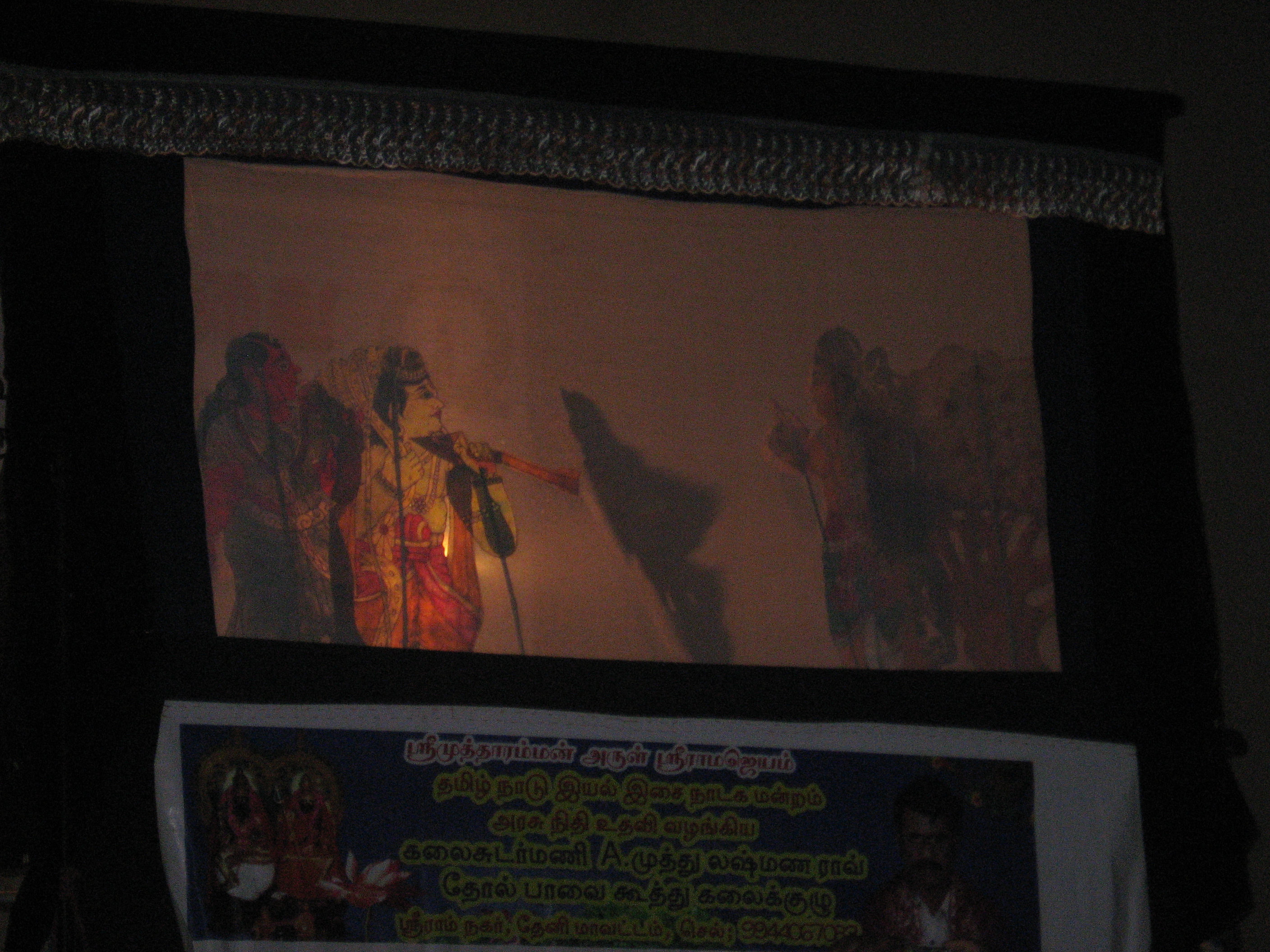 தோல் பாவை நிழற்கூத்தின் திரை